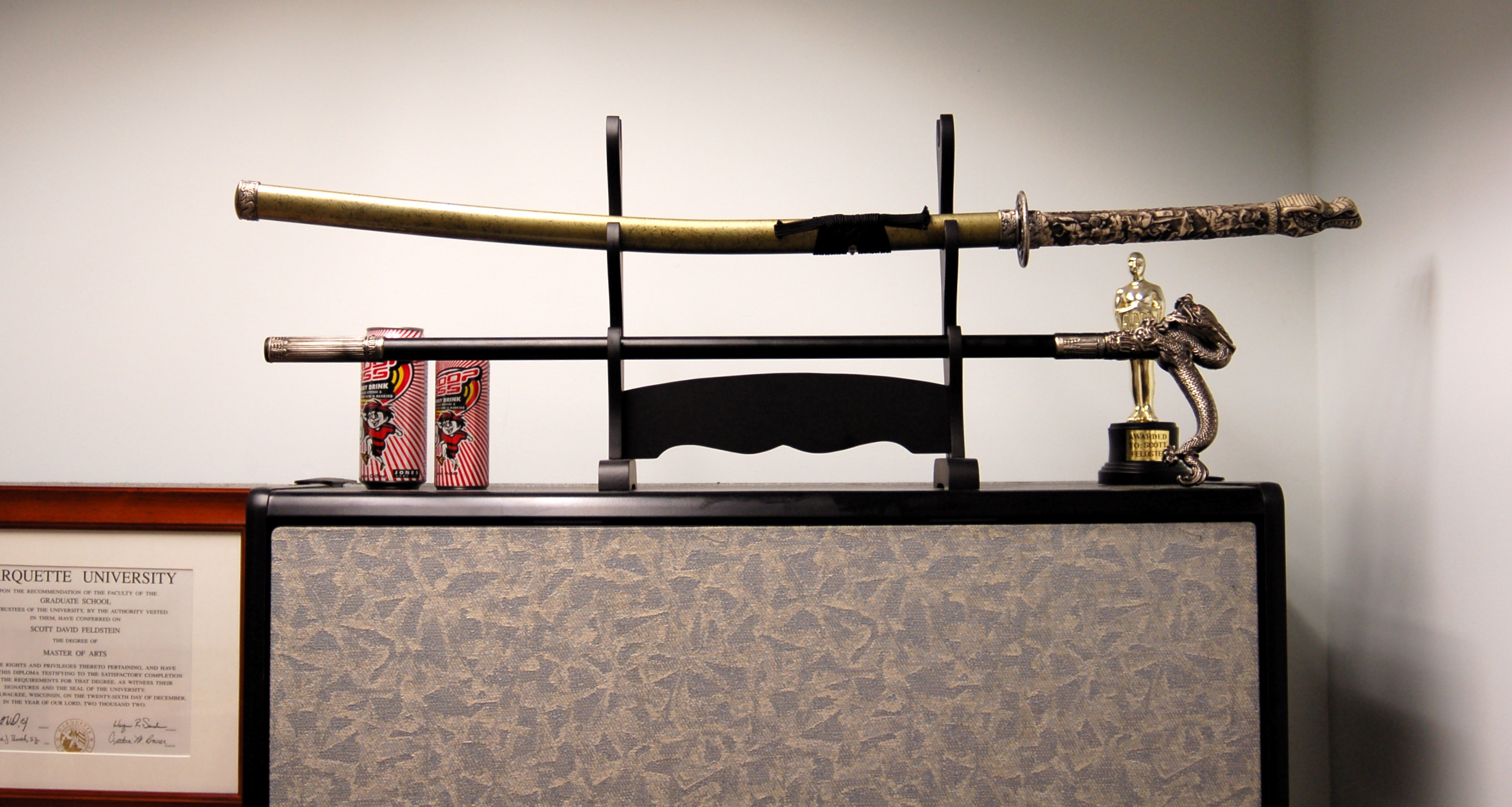 Two Japanese style swords resting in a horizontal katana kake, one sword is a Zatoichi-style cane sword. Dig the dragon handle.